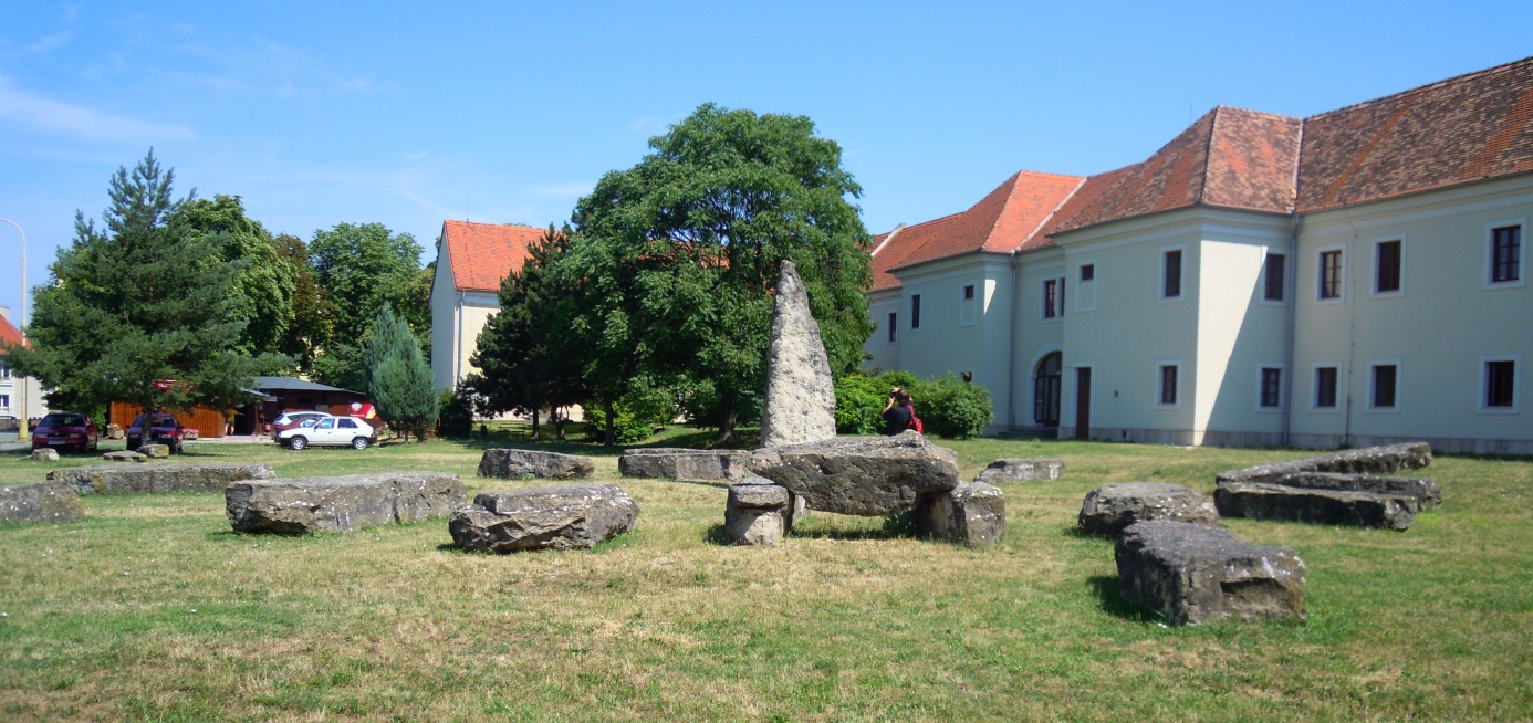 Holic's sanctuary1